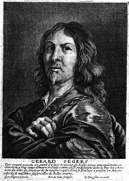 Gerard Segers in Cornelis de Bie's Gulden Cabinet.